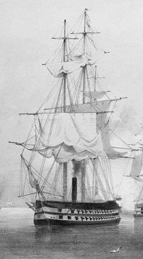 The English & French fleets in the Baltic, 1854. (Plate No.5). The fleets becalmed. Screw ships getting steam up (shows H.M.S. Princess Royal and Blenheim)